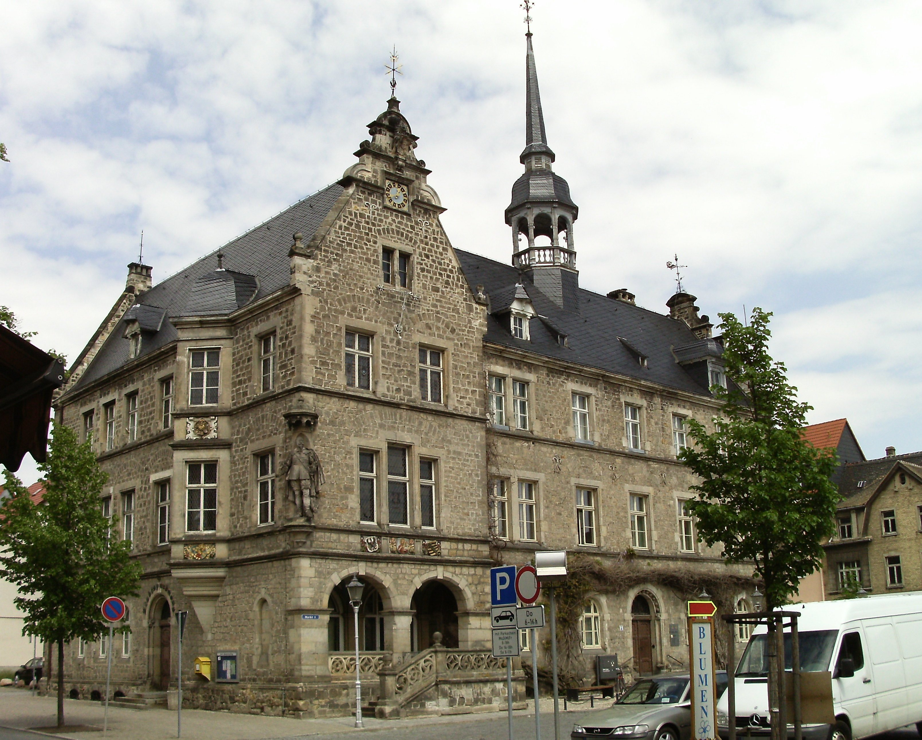 Town hall in Lützen (district of Burgenlandkreis, Saxony-Anhalt)